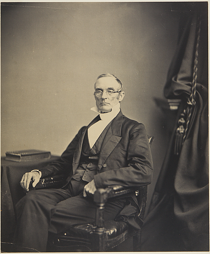 Photographic portrait of Rev. Joshua Leavitt (1794-1873), abolitionist, by Mathew B. Brady & Studio. Salted paper print. 17 7/8 in. x 14 7/8 in. Courtesy of the President and Fellows of Harvard College, Special Collections, Fine Arts Library, Harvard College, Cambridge, Mass.